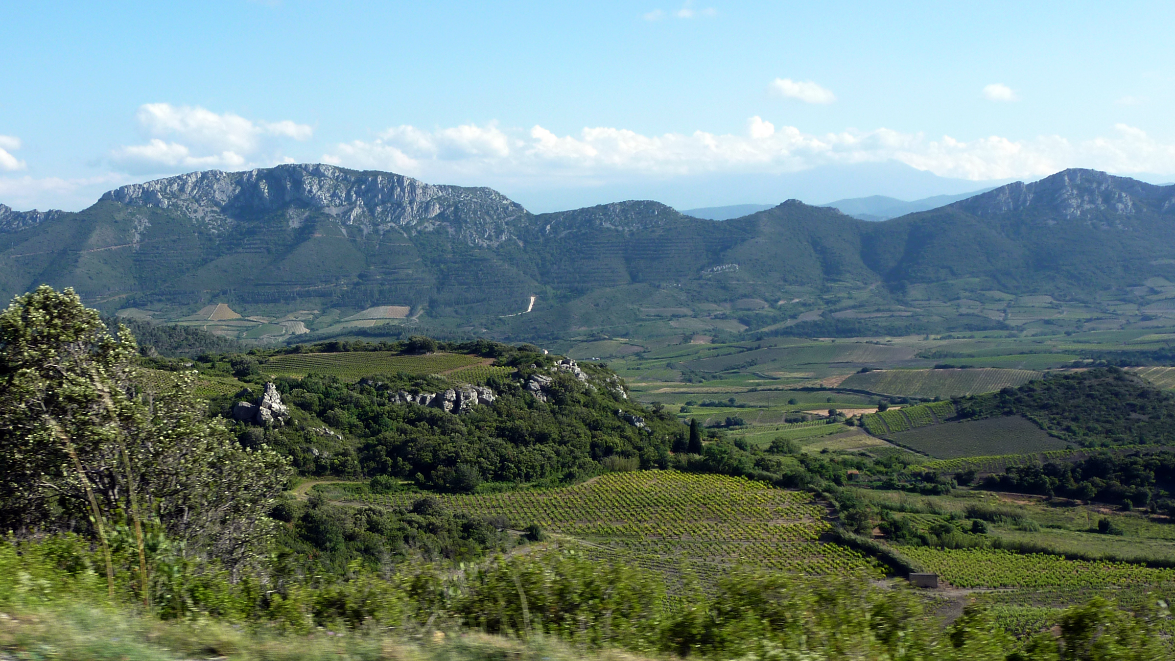 Maury AOC (département of Pyrénées-Orientales, Languedoc-Roussillon région, France)